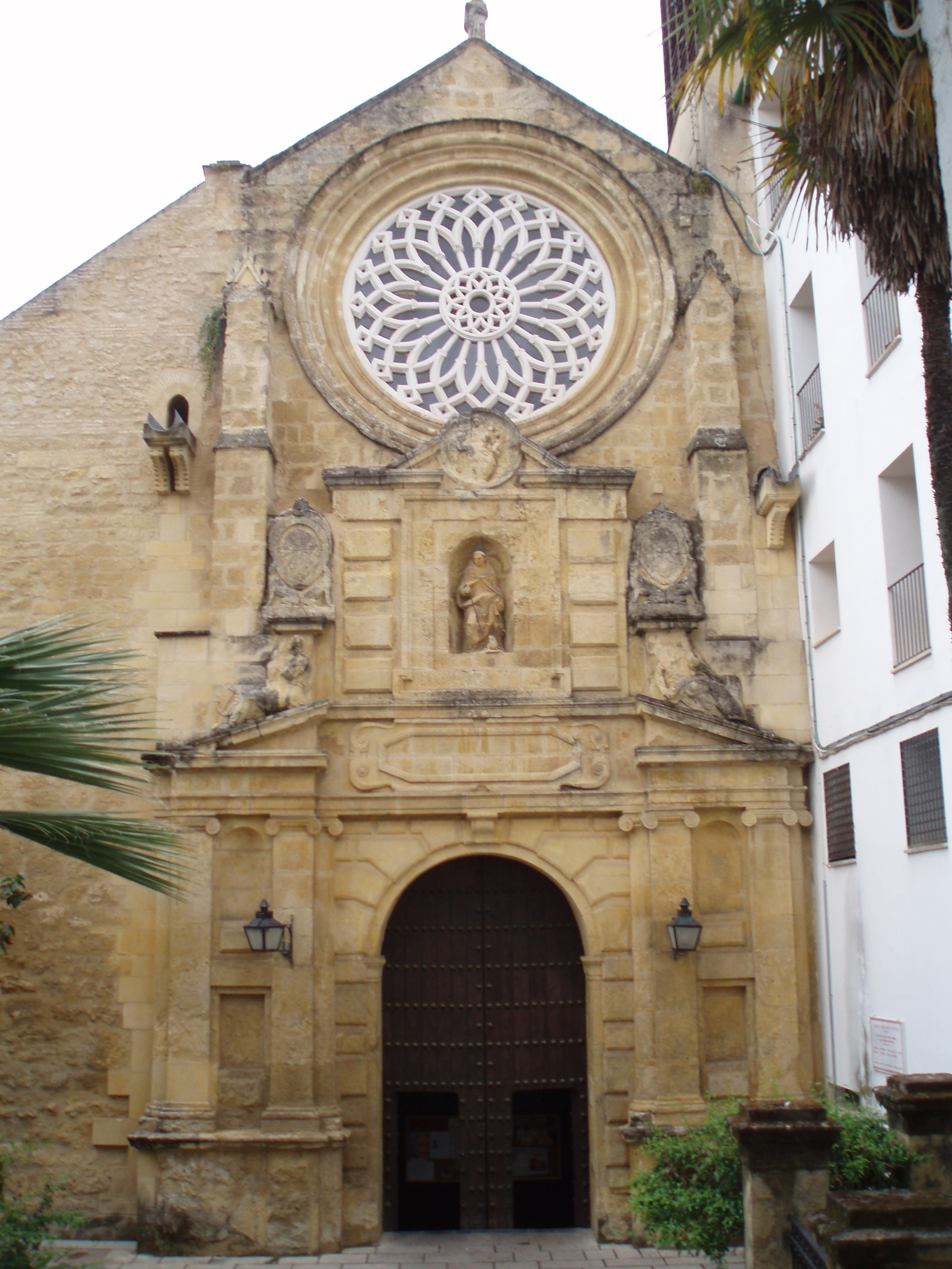 Church of Saint Paul in the city of Córdoba (Spain).